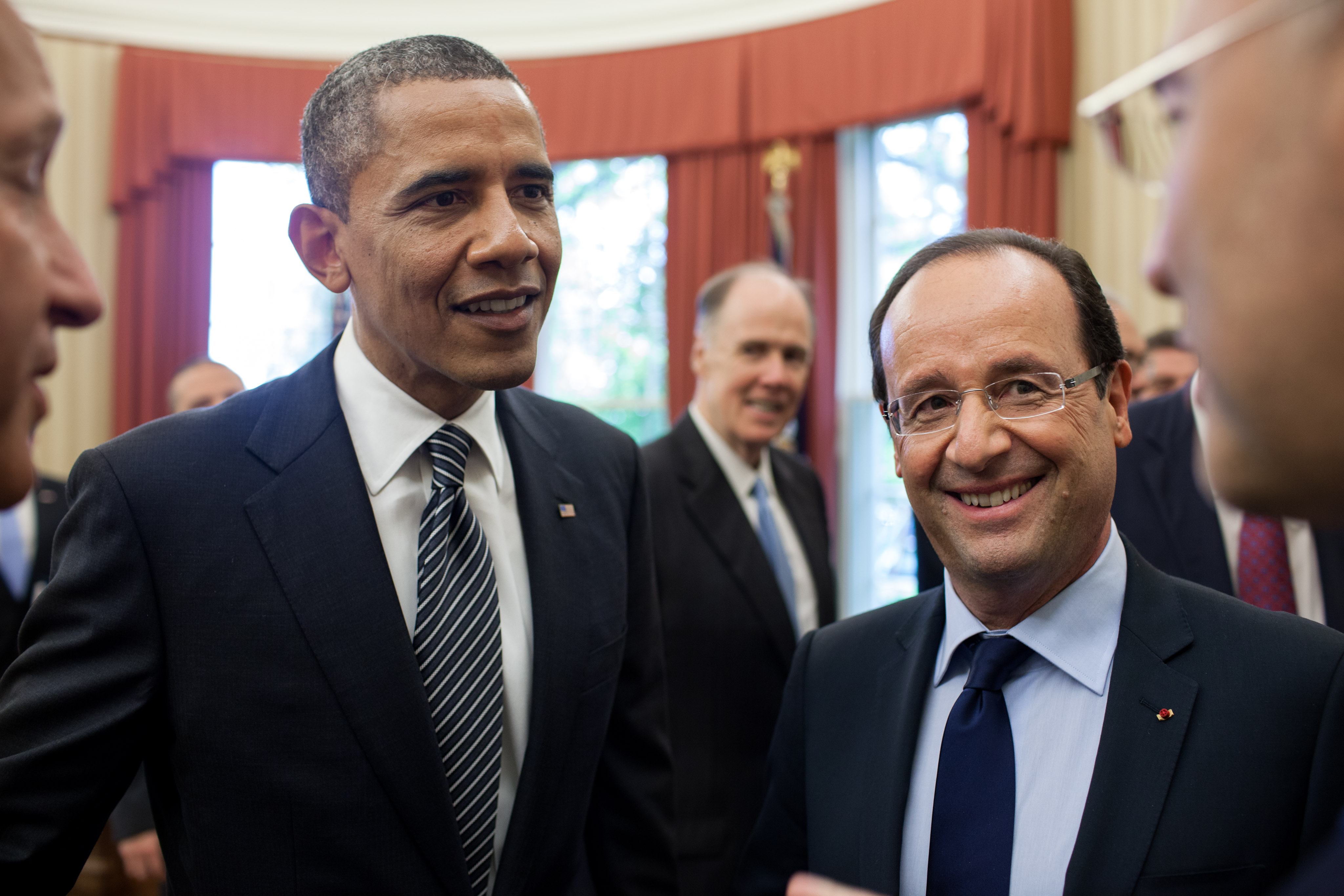 President Barack Obama and President François Hollande of France, with interpreters, hold a discussion following their bilateral meeting in the Oval Office, May 18, 2012. (Official White House Photo by Pete Souza)